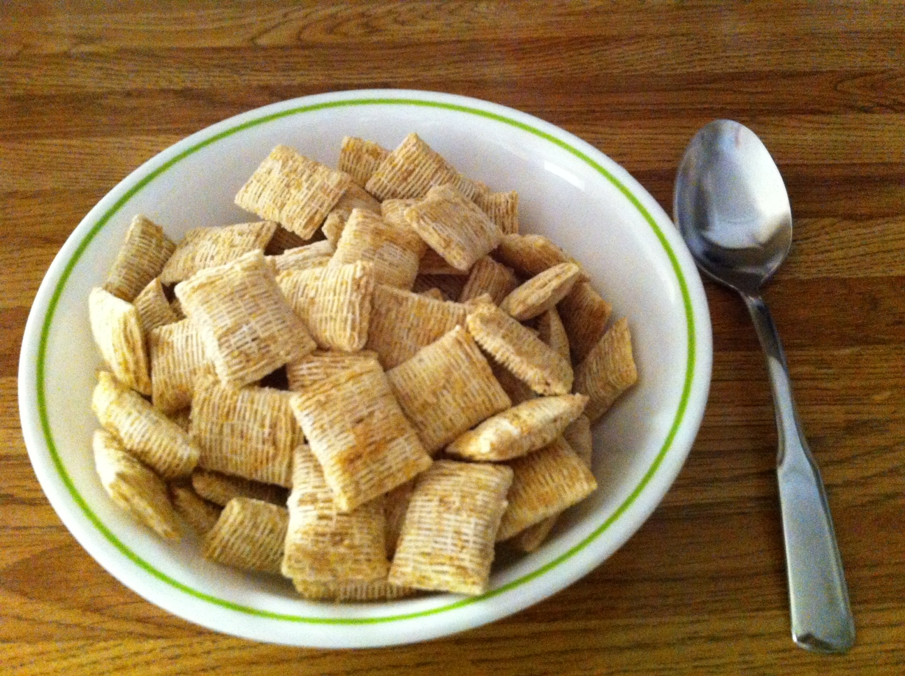 A bowl of bite-sized shredded wheat in a cereal bowl